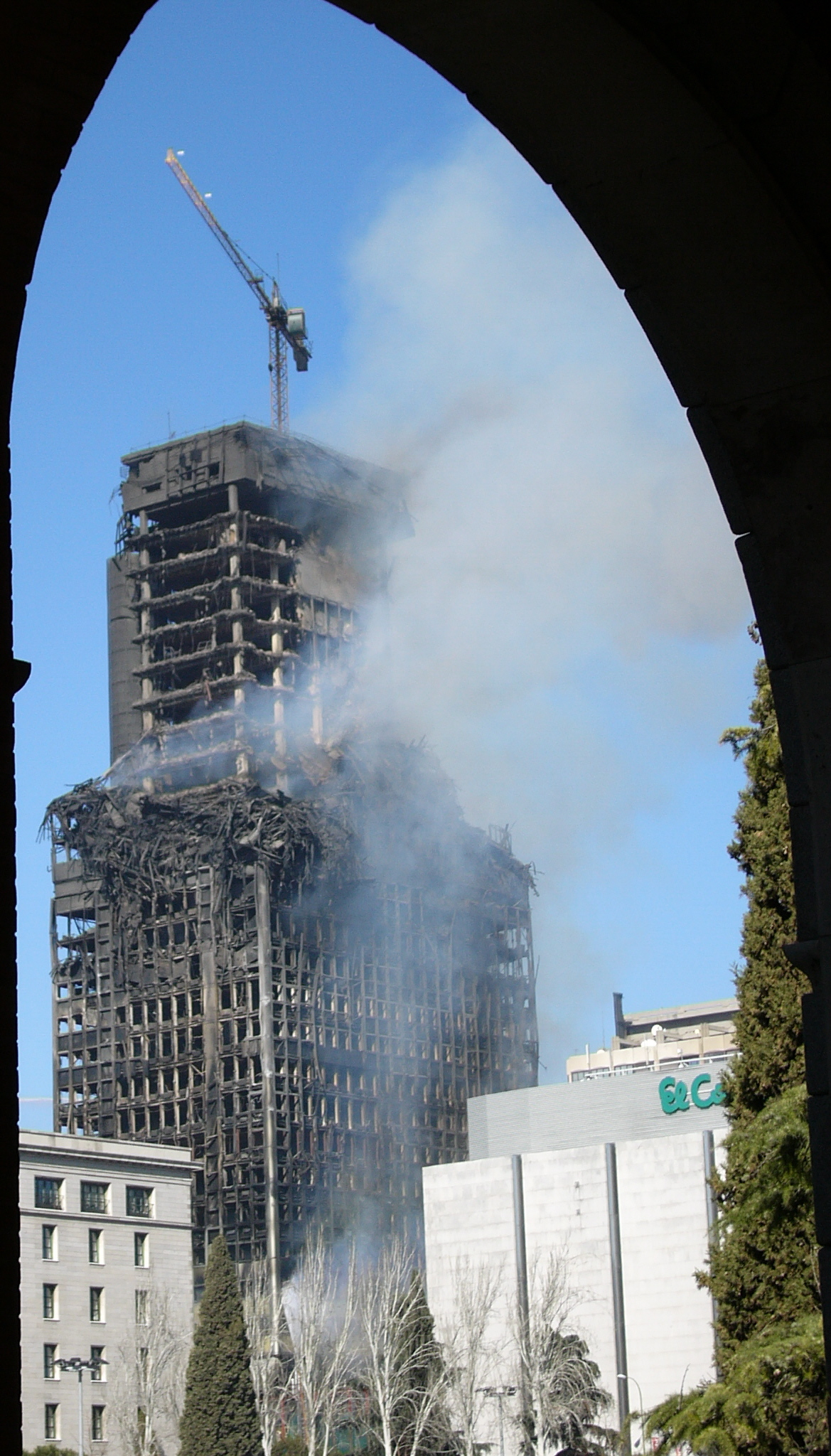 Description: Torre Windsor burning Place: Madrid, Spain Photographer: © Manuel González Olaechea y Franco Shot date : February 13th, 2005, at 12.06 hours